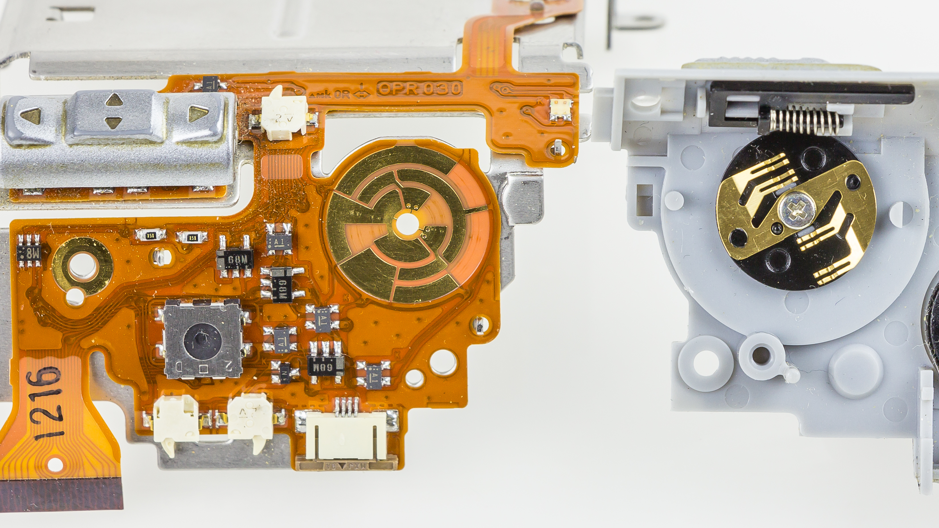 Canon PowerShot S45 - main rotary switch dismantled